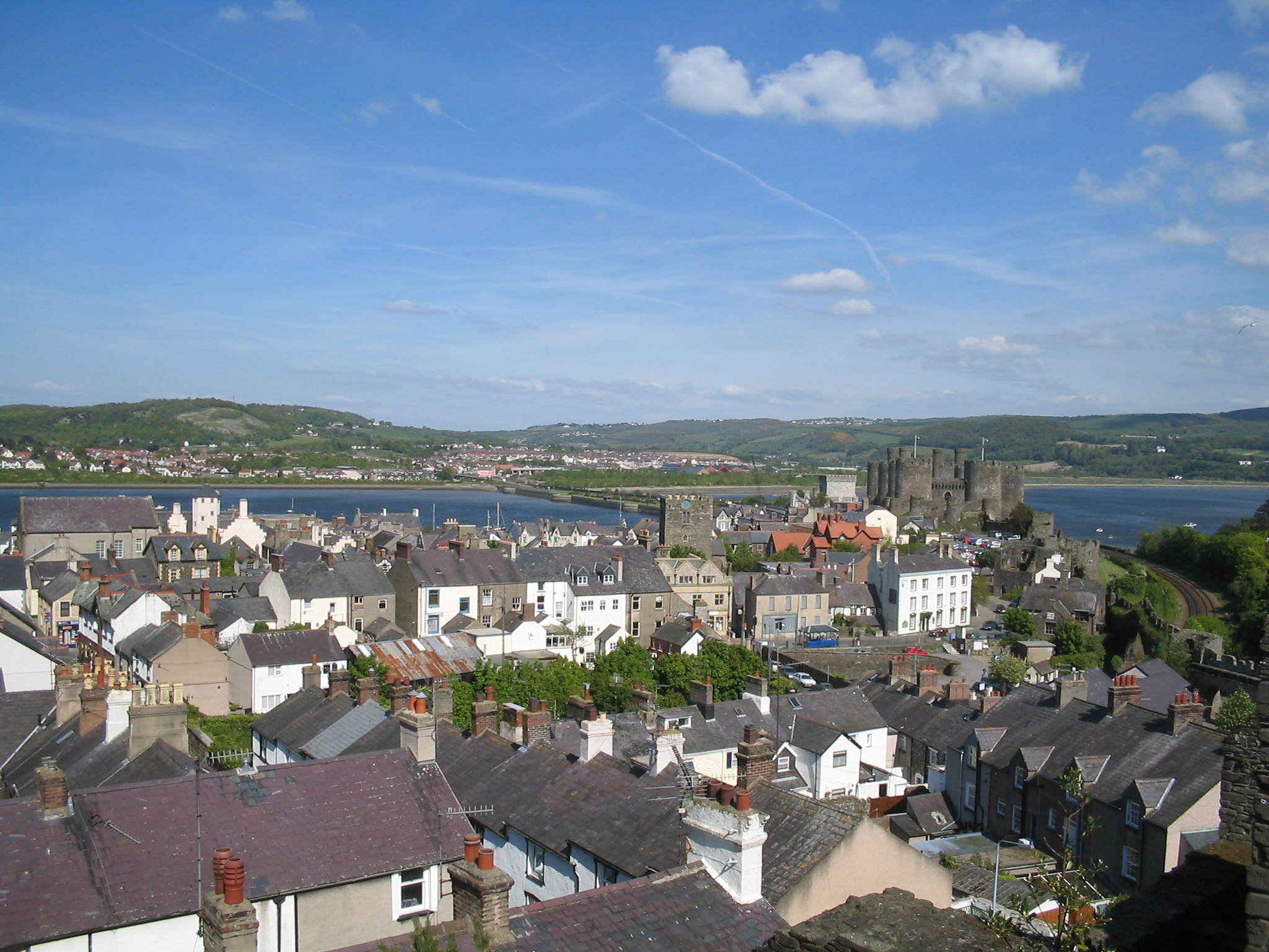 A view of the original walled town of Conwy. The viewpoint is from atop the large tower at the corner of the wall. Conwy Castle is visible to the right. Conwy Suspension Bridge is barely visible, passing over the River Conwy. David Benbennick took this photo on May 13, 2005 at 3:53 PM (14:53 UTC).